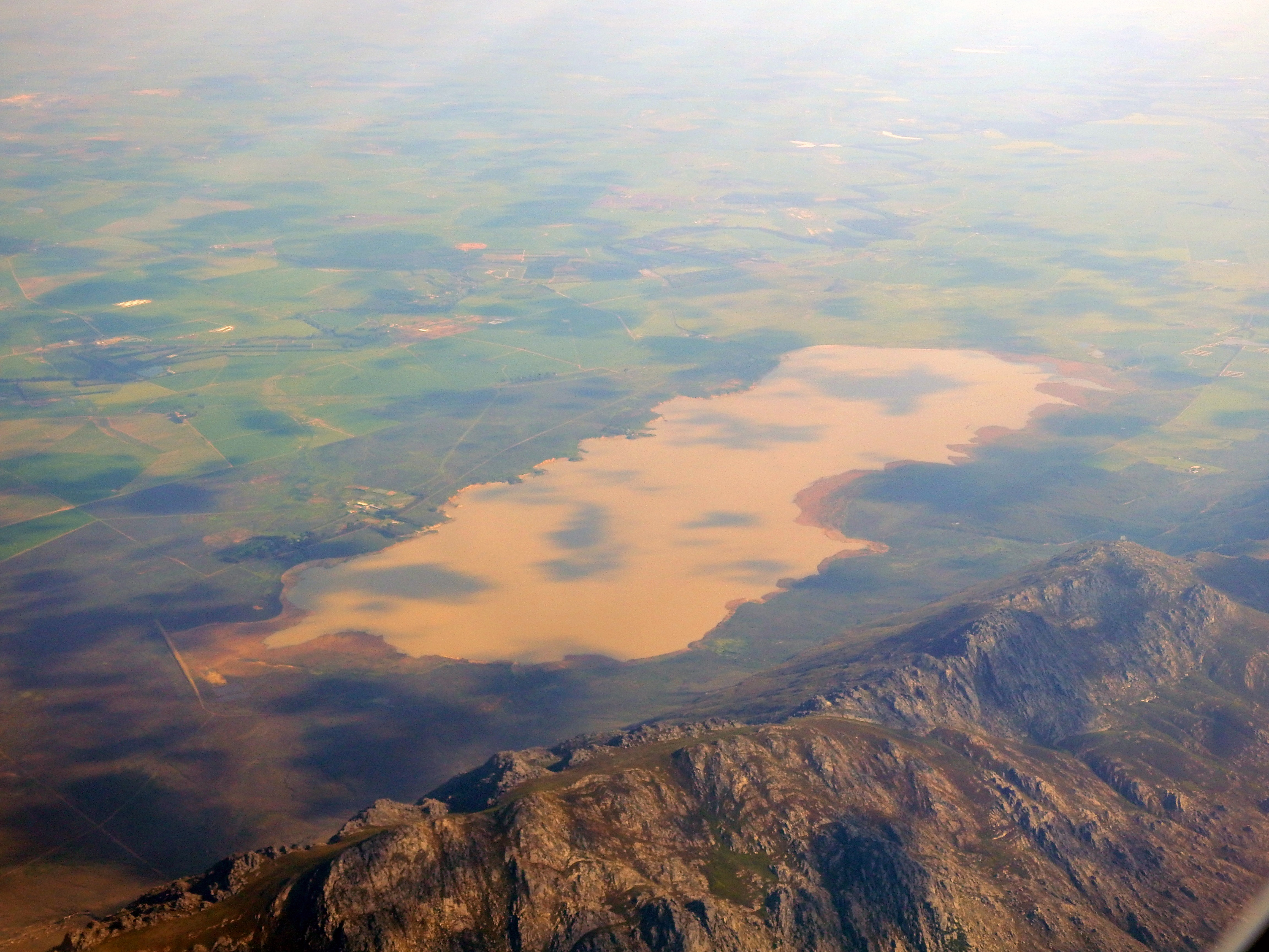 Voelvlei Dam and Reservoir. Photographs of subjects taken before, during, or after Wikimania 2018, held in Cape Town, South Africa. More information may be found in the categories of this file.